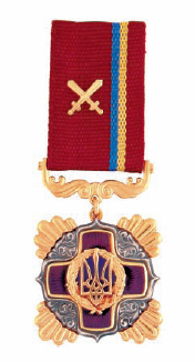 Ukrainian National Award - the order "For Merit" (2nd degree with swords)